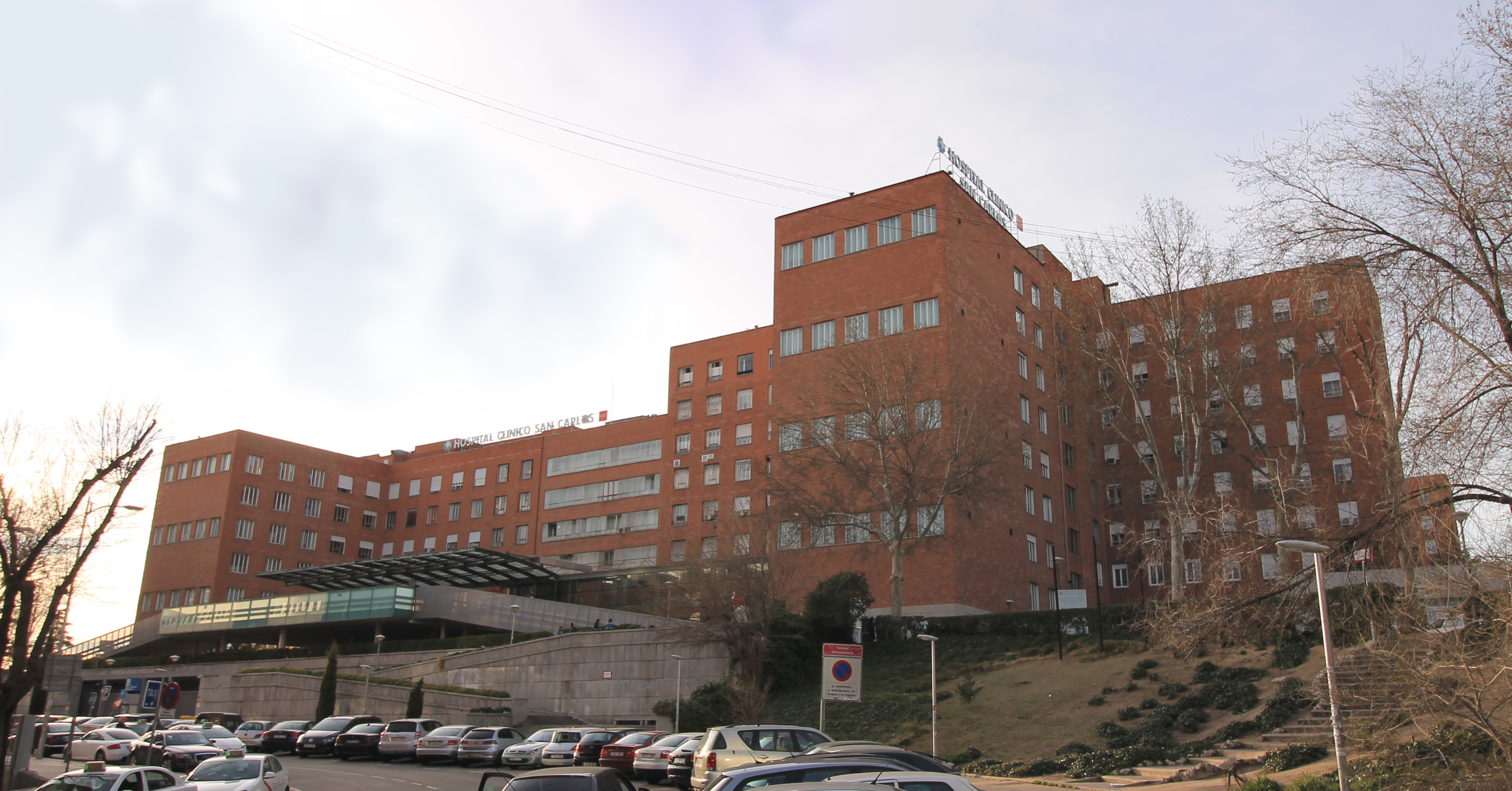 Façade of Hospital Clínico San Carlos in Madrid (Spain).